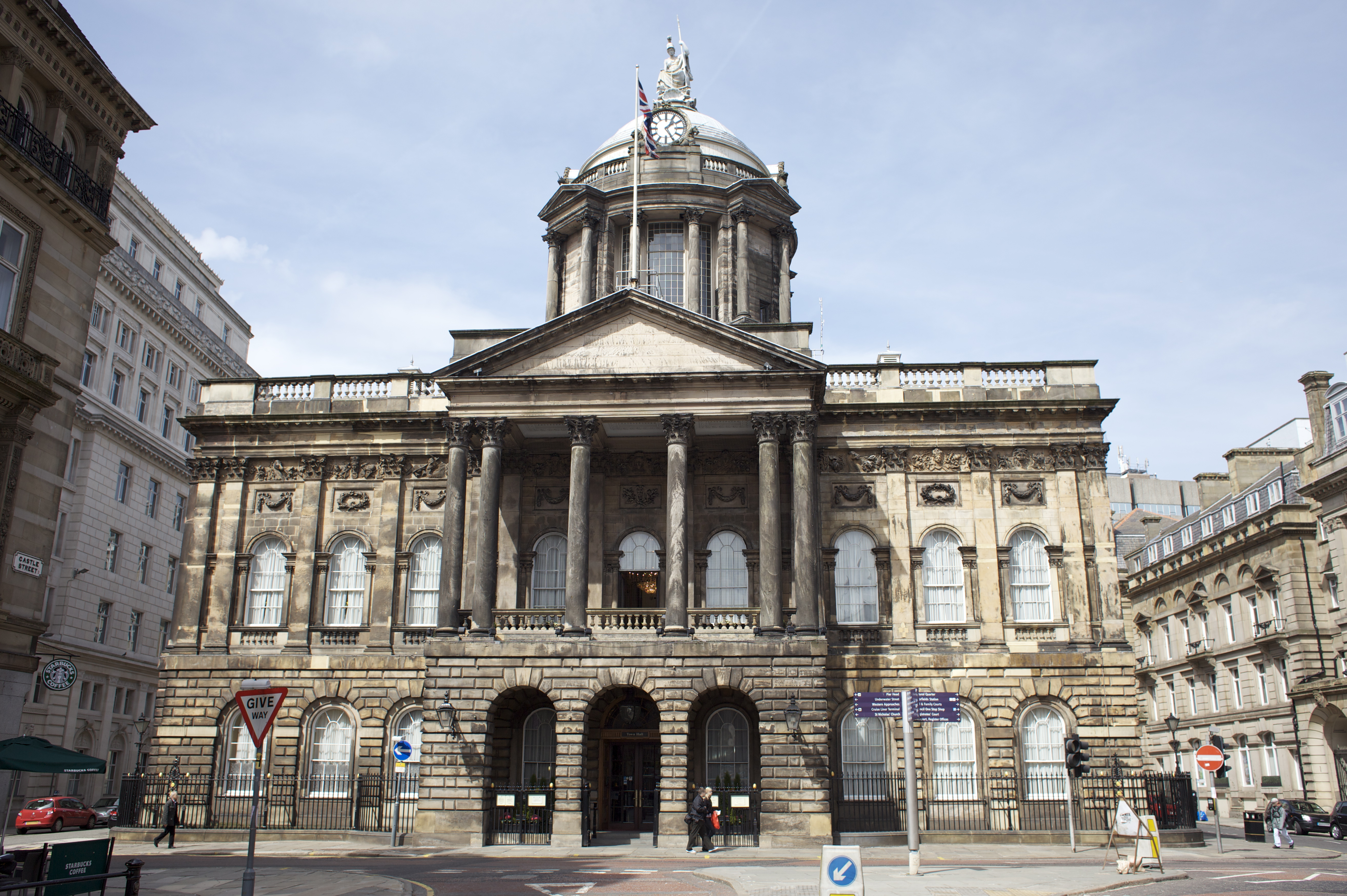 Liverpool (UK) Town Hall, South Elevation